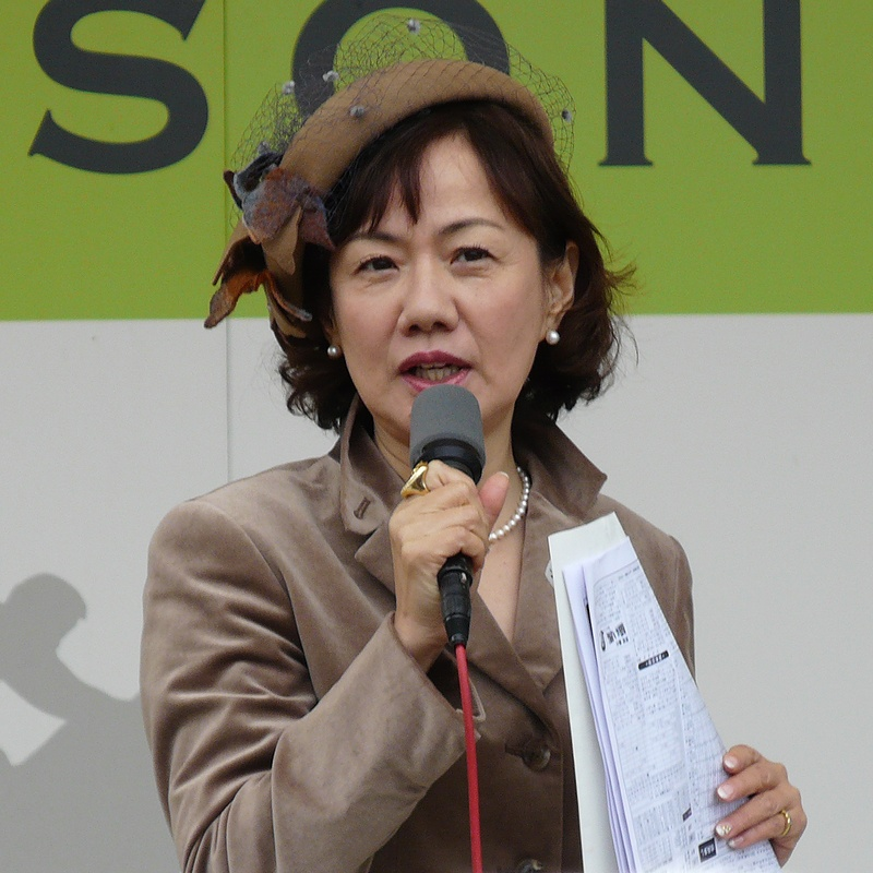 Yoshiko-Suzuki2011